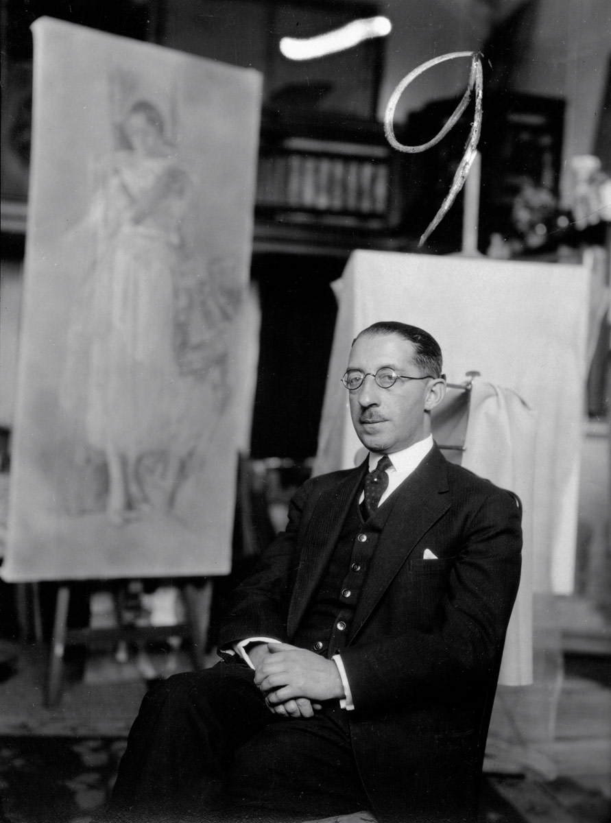 The politician Bernhard Weiß (1880-1951). 1920s. Vintage gelatin silver contact print on Velox paper. 11,5 x 8,8 cm